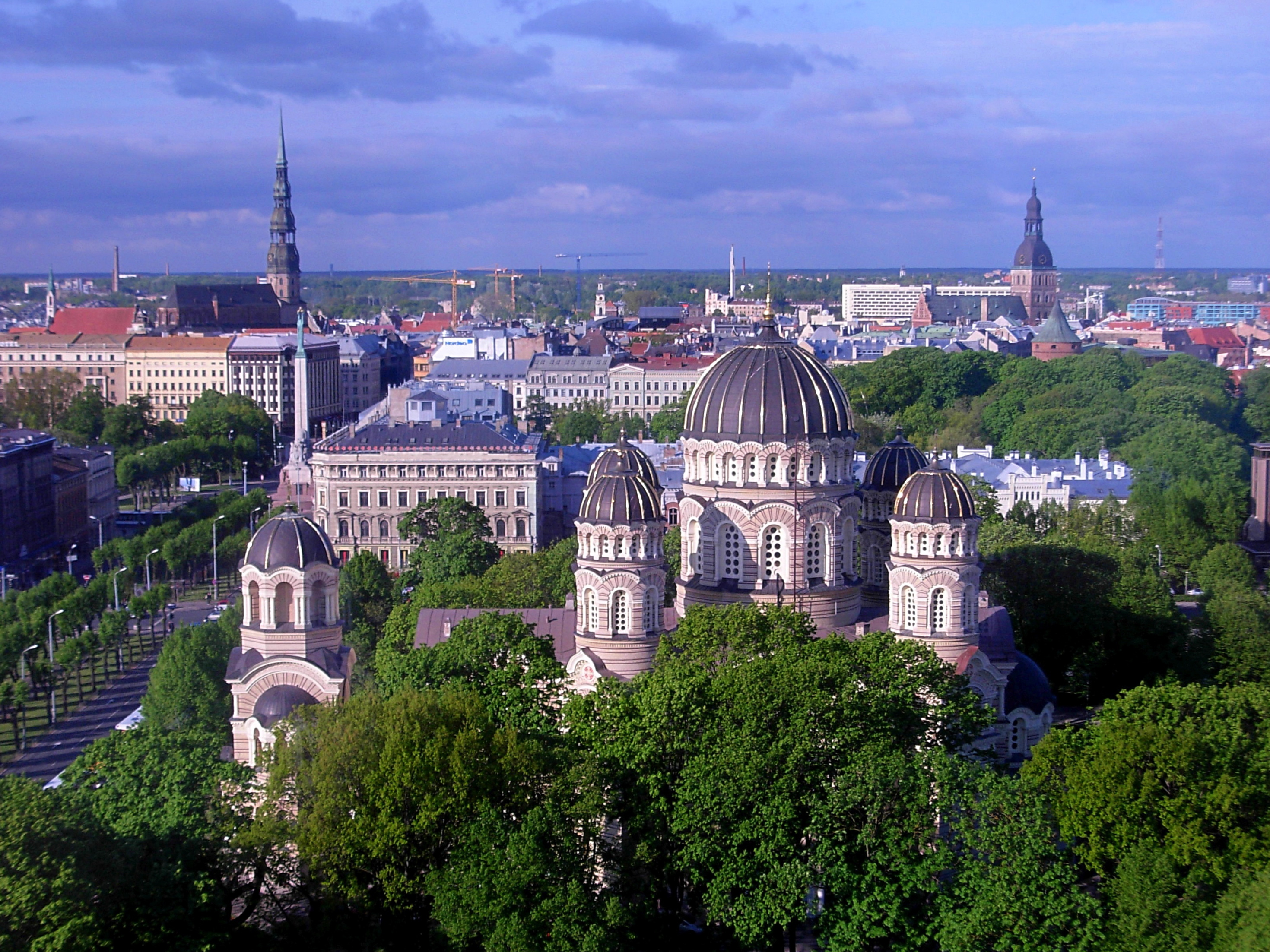 View of Riga